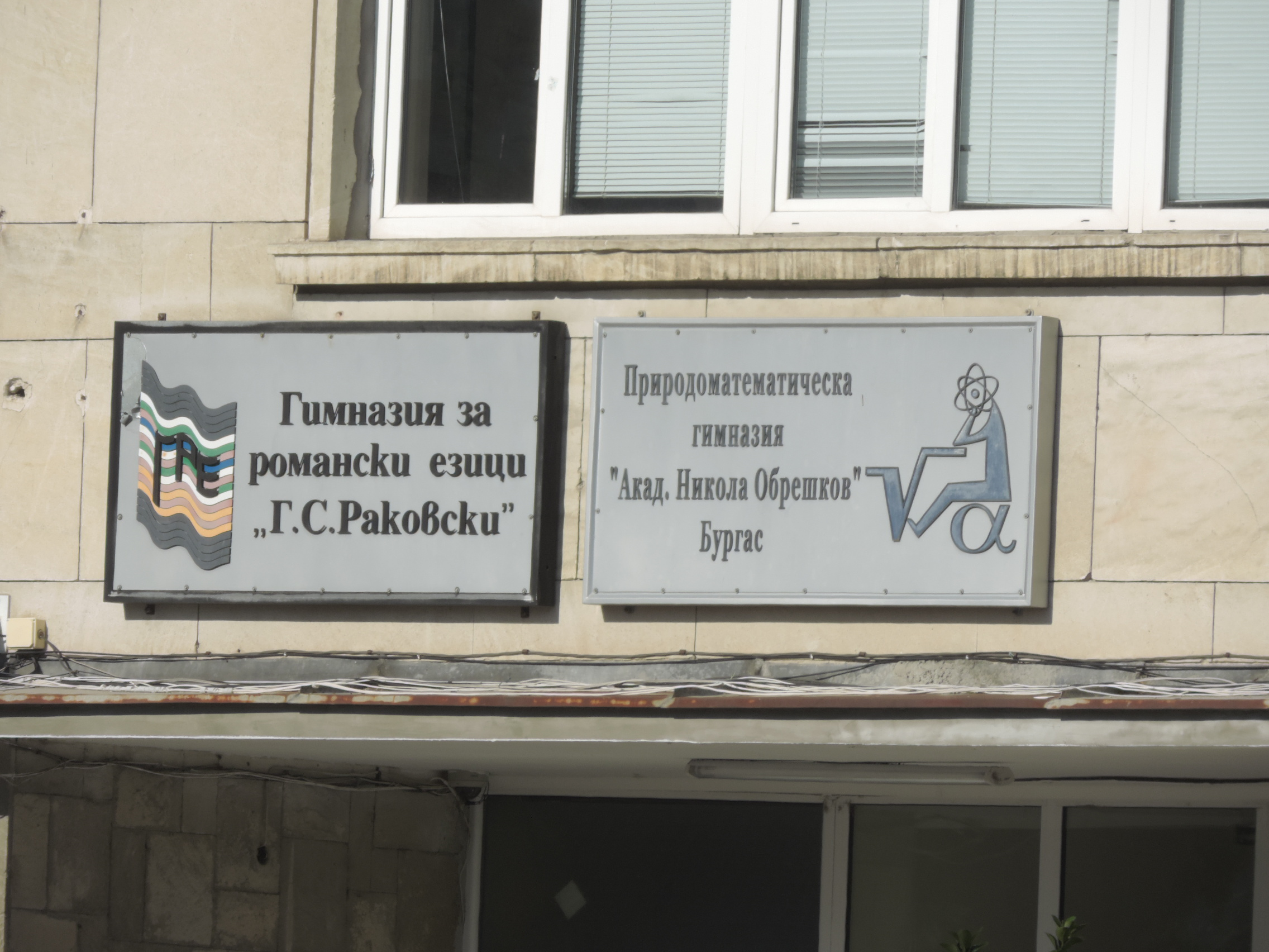 Roman Languages Gymnasium "G. S. Rakovski" and Mathematical Gymnasium "Acad. Nikola Obreshkov" in Burgas, Bulgaria